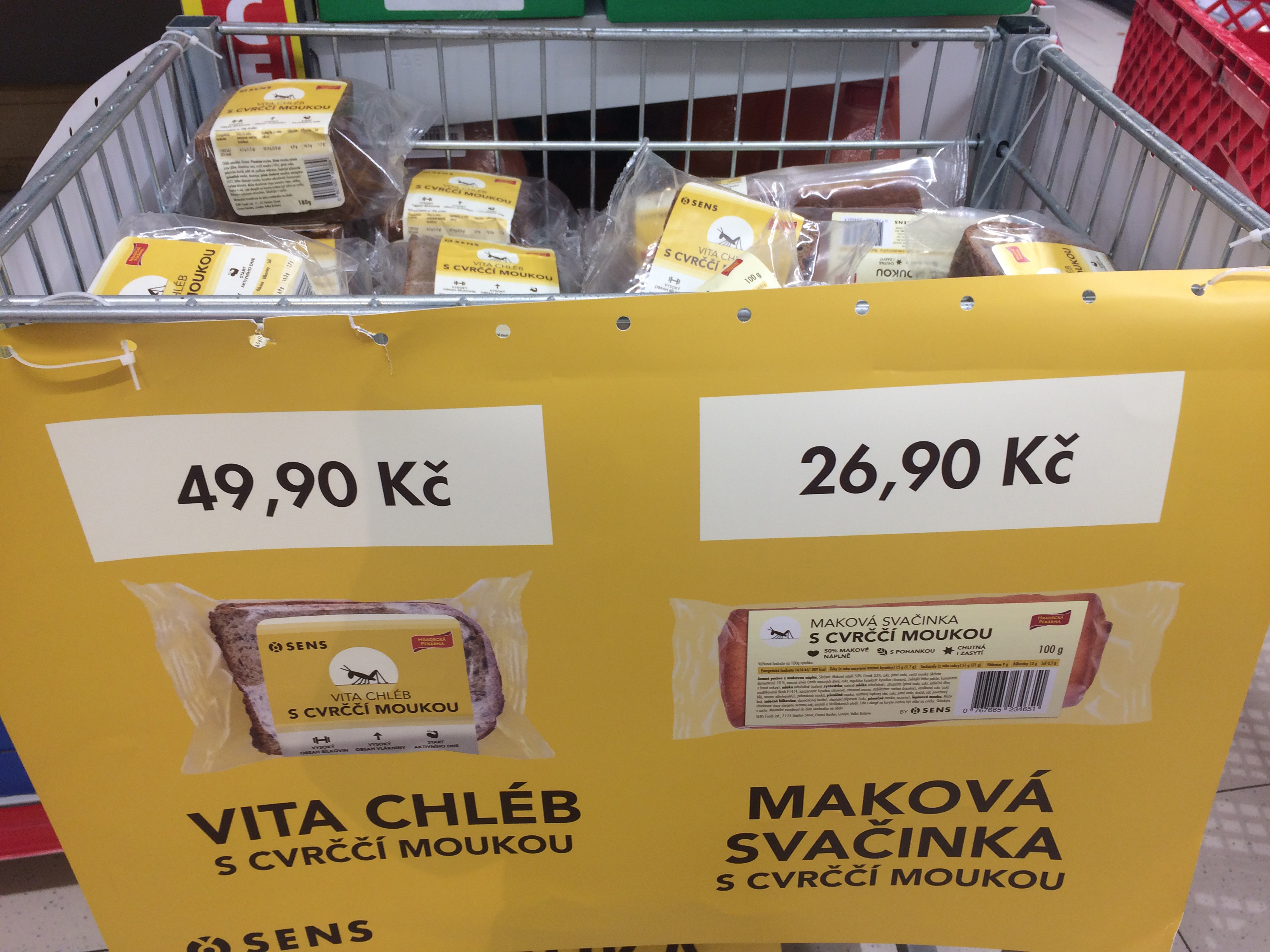 Bread and poppy seed roll with cricket flour as offered in Czechia. Cricket flour provided by Czech startup company SENS Foods.